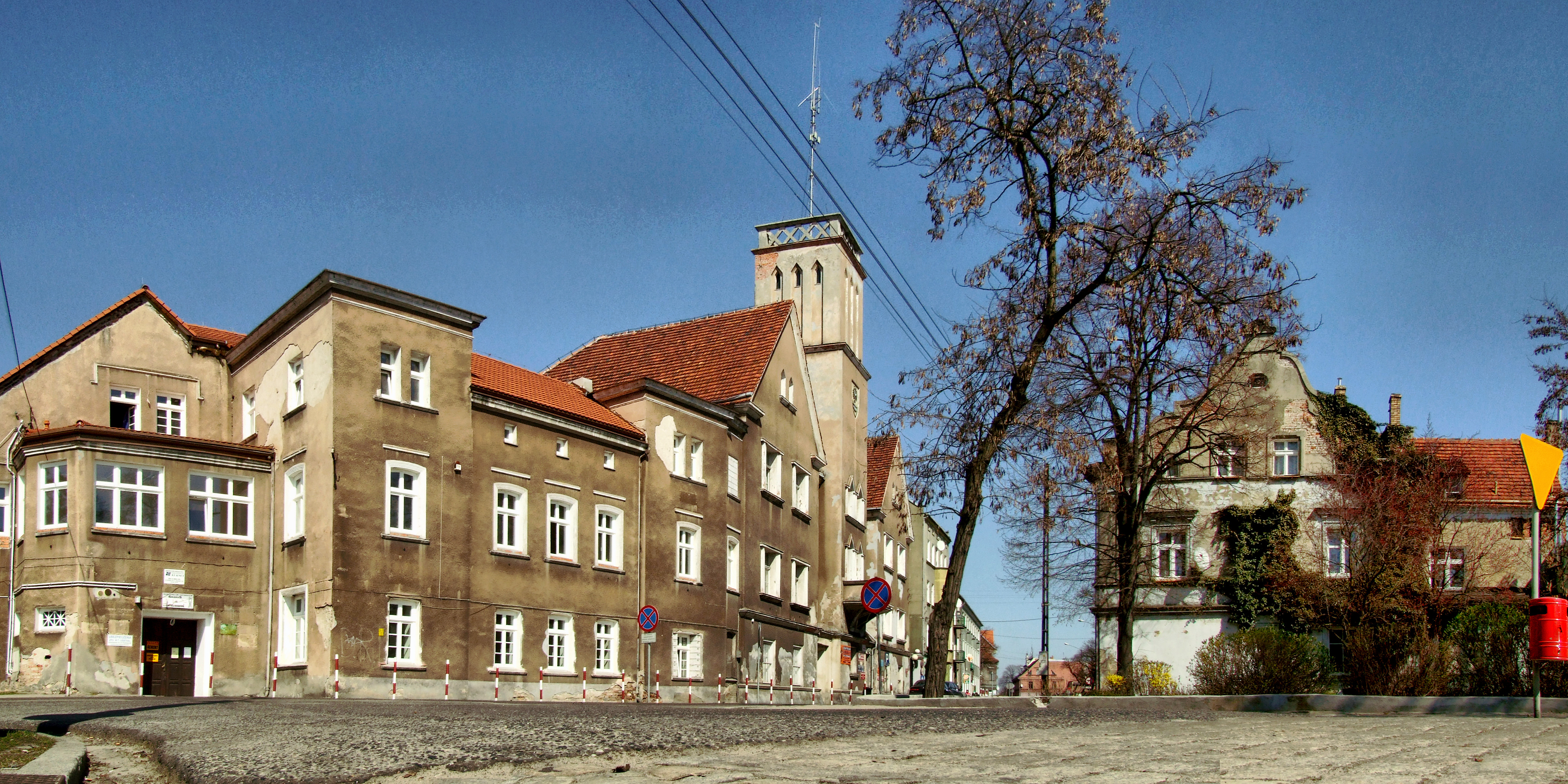 former Town Hall in Nowa Sól